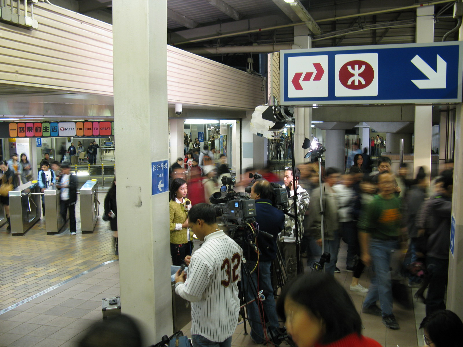 The final operation day of KCRC at Kowloon Tong Station. The photo also shows that aTV was making a live news report.